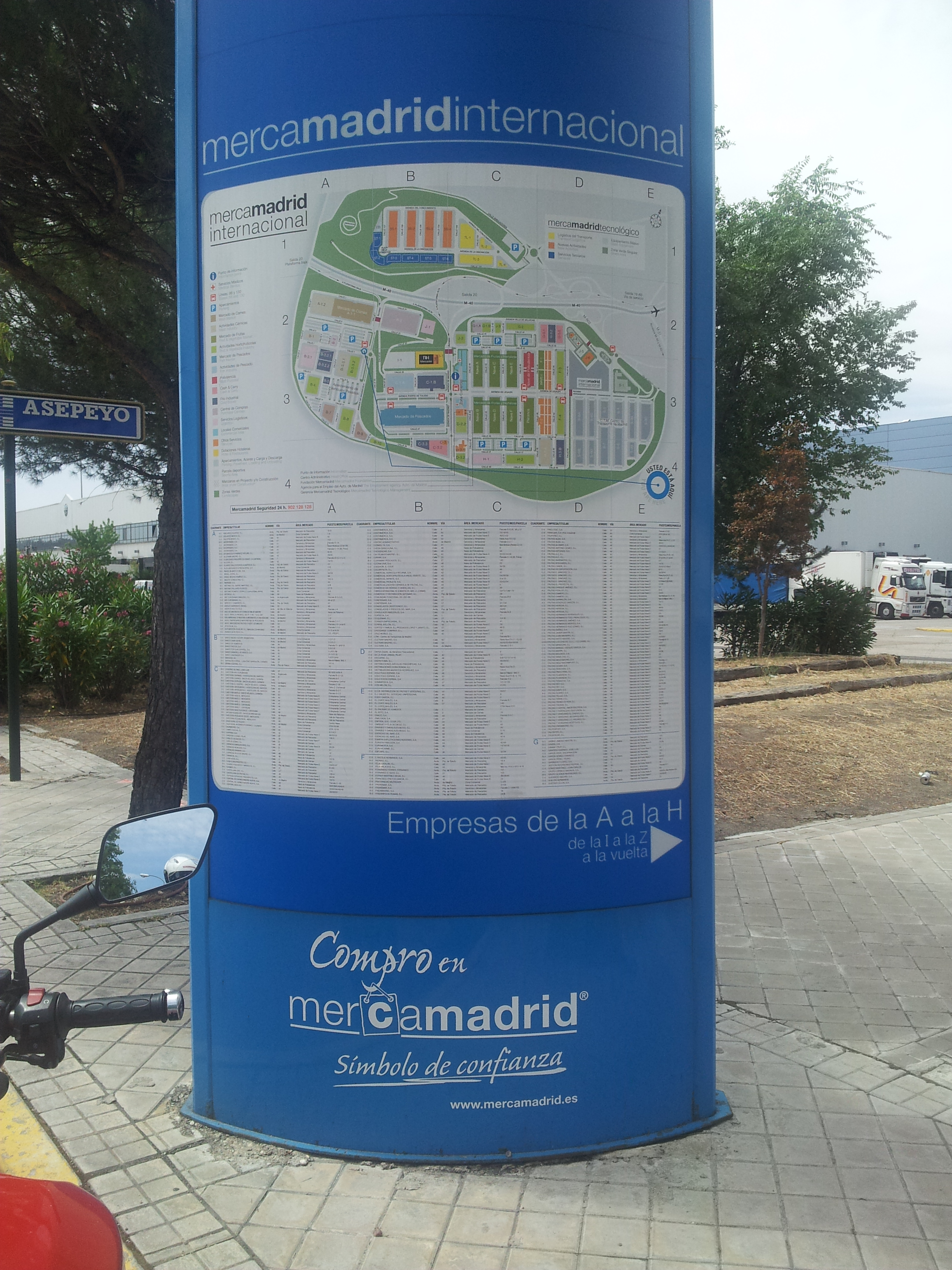 Plano Mercamadrid